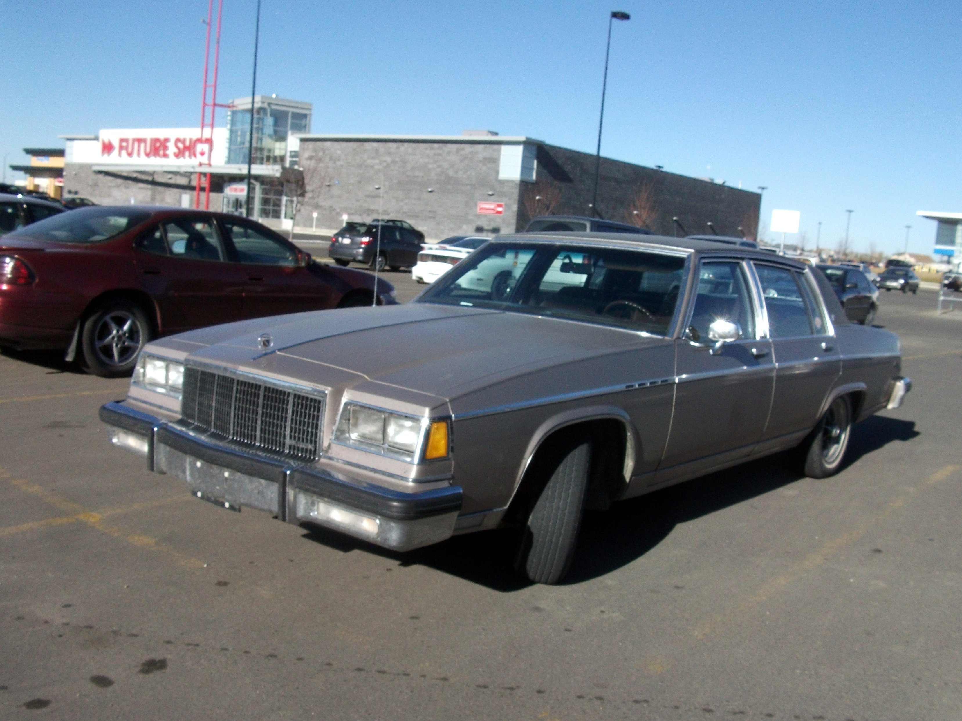 1983 or 1984 Buick Park Avenue